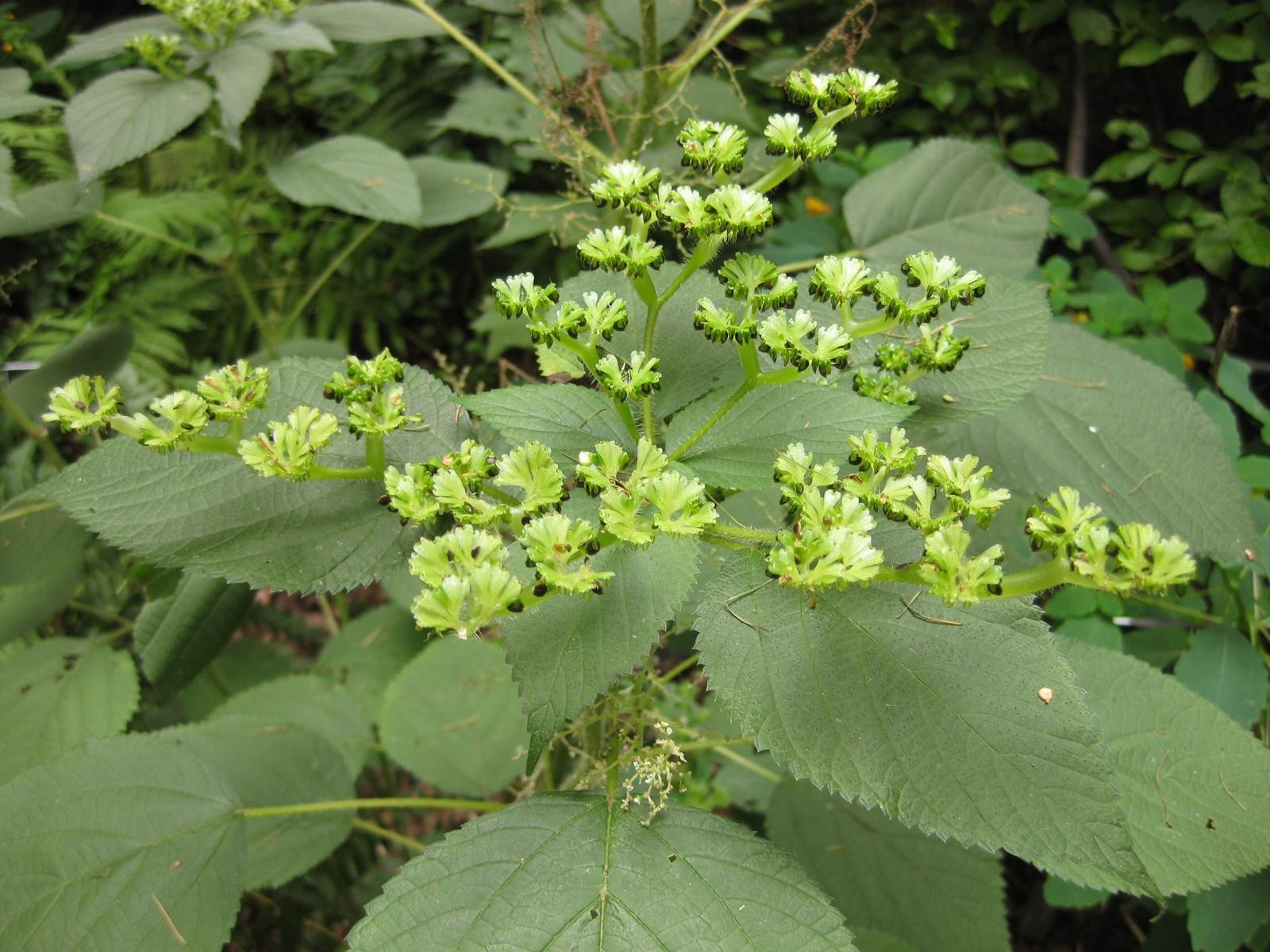 Canadian wood-nettle (Laportea canadensis), photographed at Brooklyn Botanic Garden (New York) in September